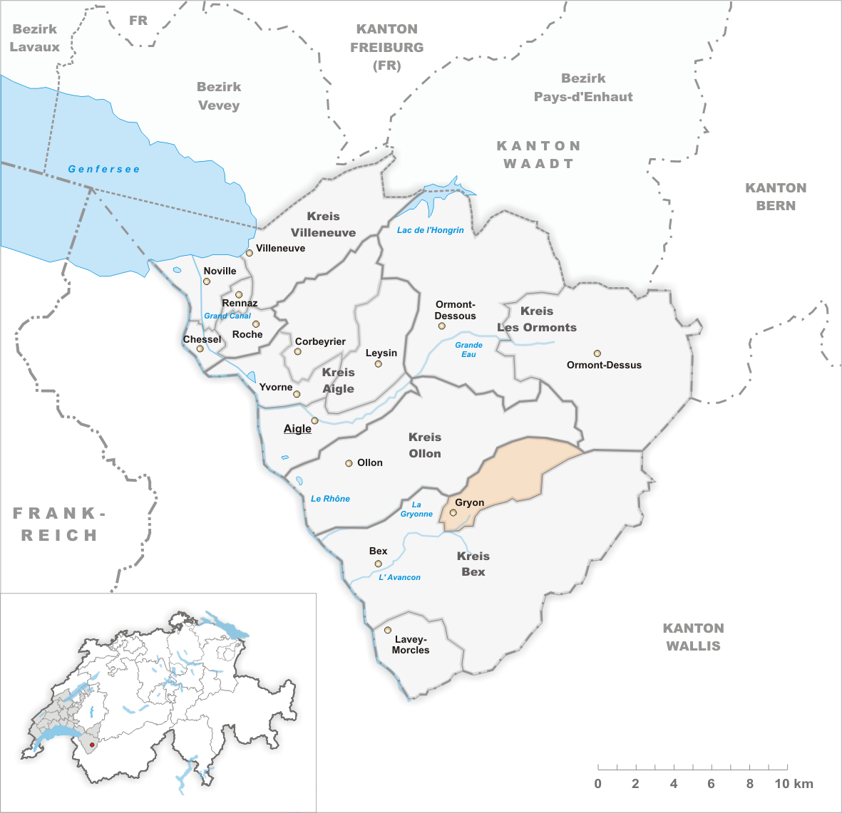 Municipality Gryon